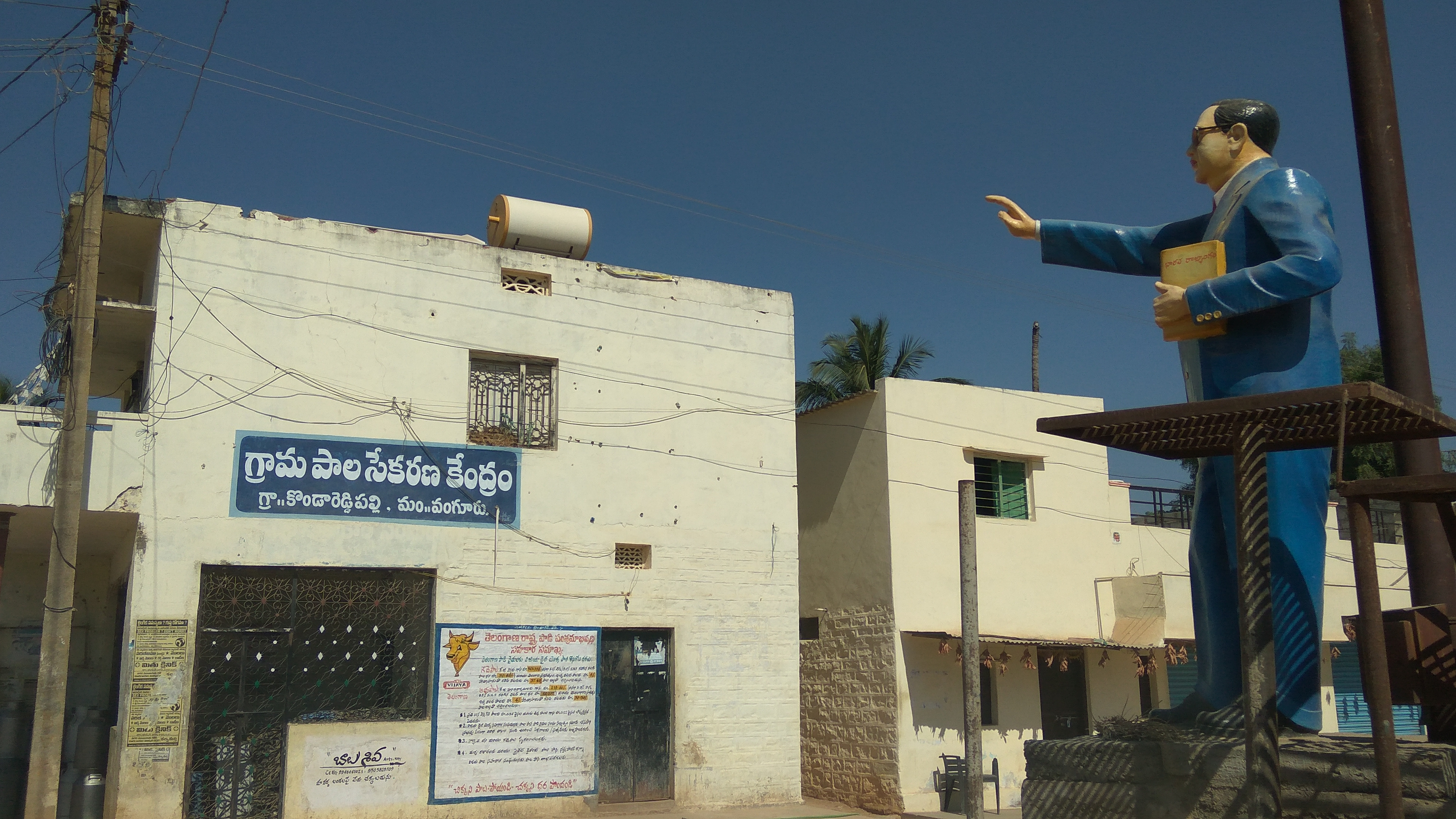 Ambedkar Statue in Kondareddypalli Village, Vangooru Mandal, Nagar Karnool District Telangana State